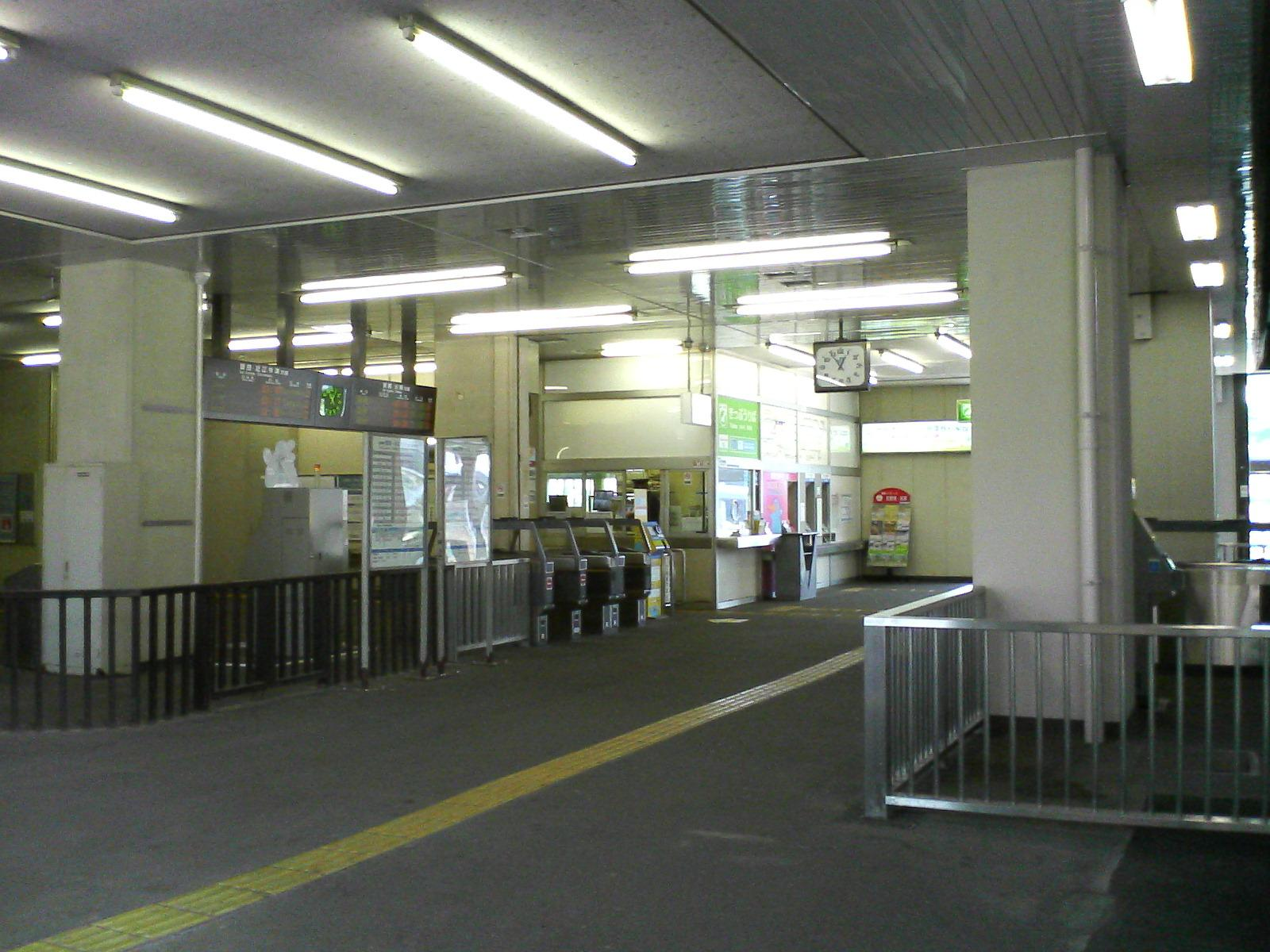 JR Ogoto Station